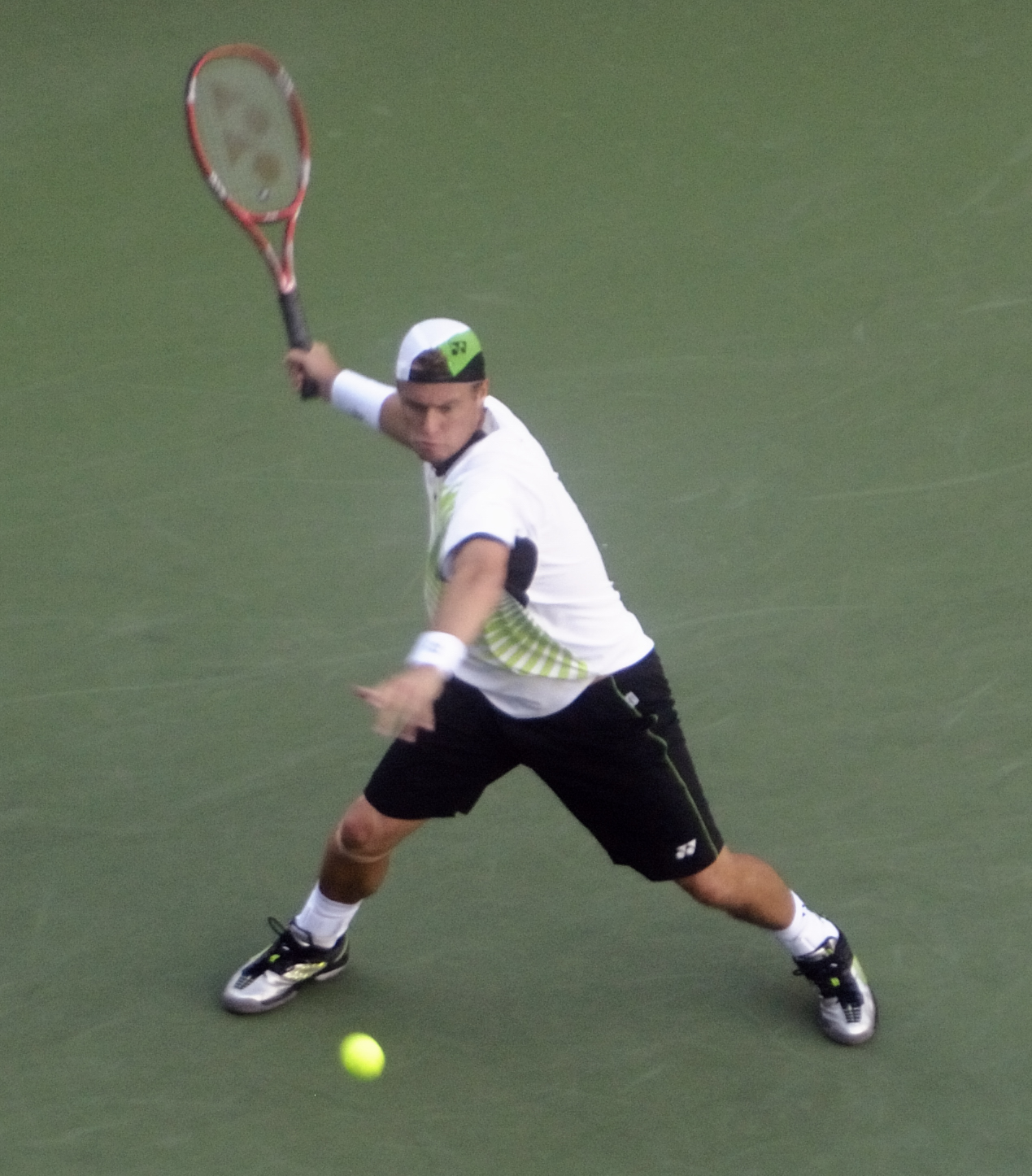 Lleyton Hewitt at the 2009 US Open